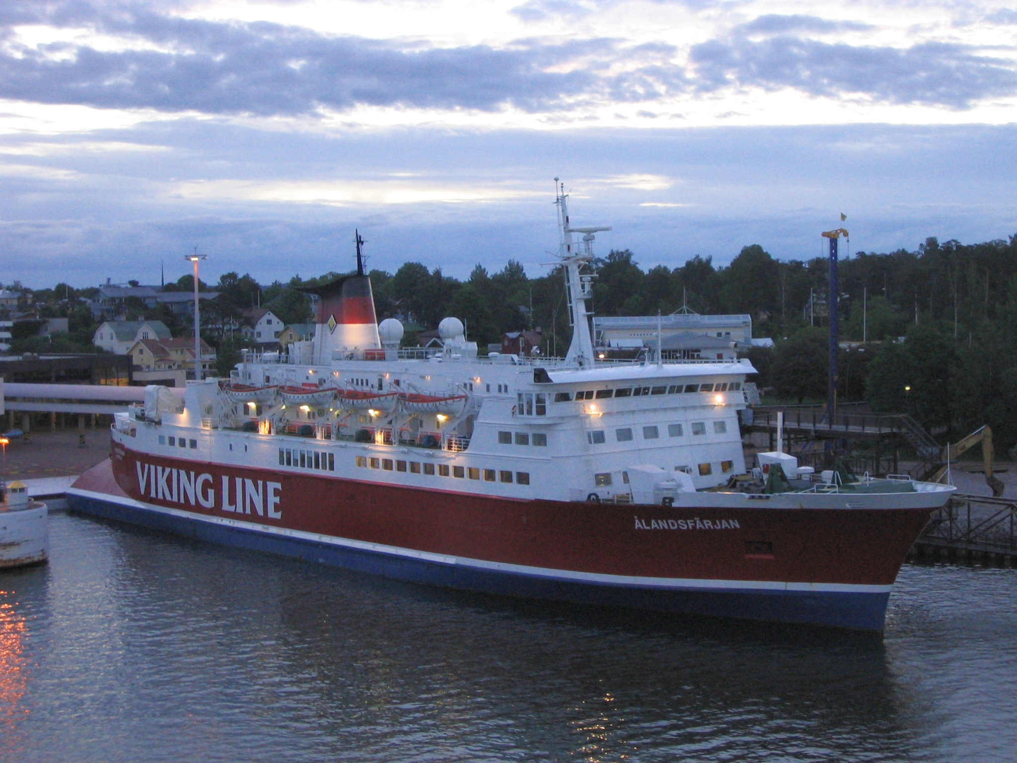 Viking Line's Ålandsfärjan in port of Mariehamn